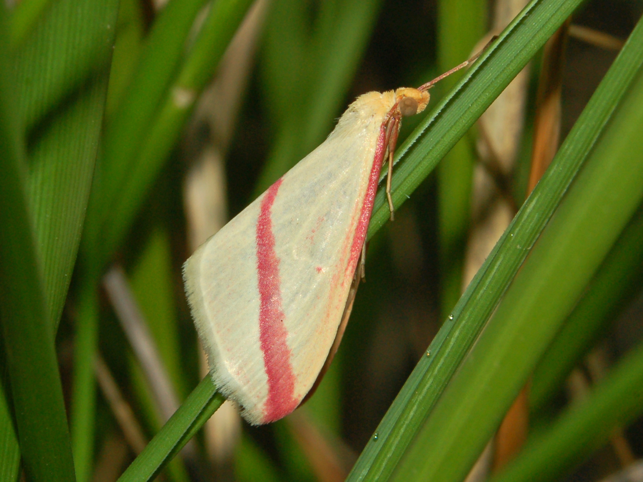 Geometridae - Rhodometra sacraria. Genoa, Italy